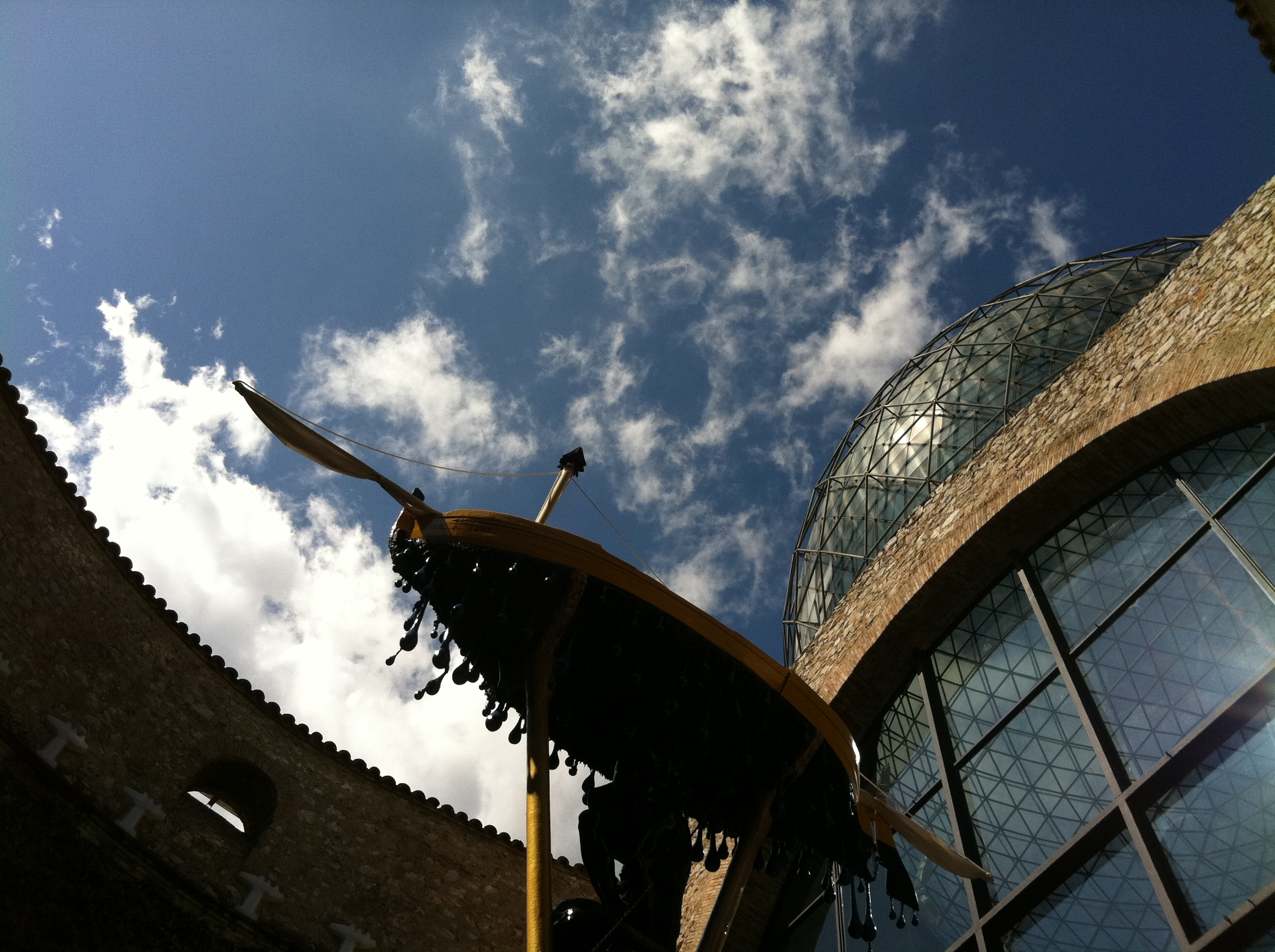 Interior of Teatre Museu Dalí